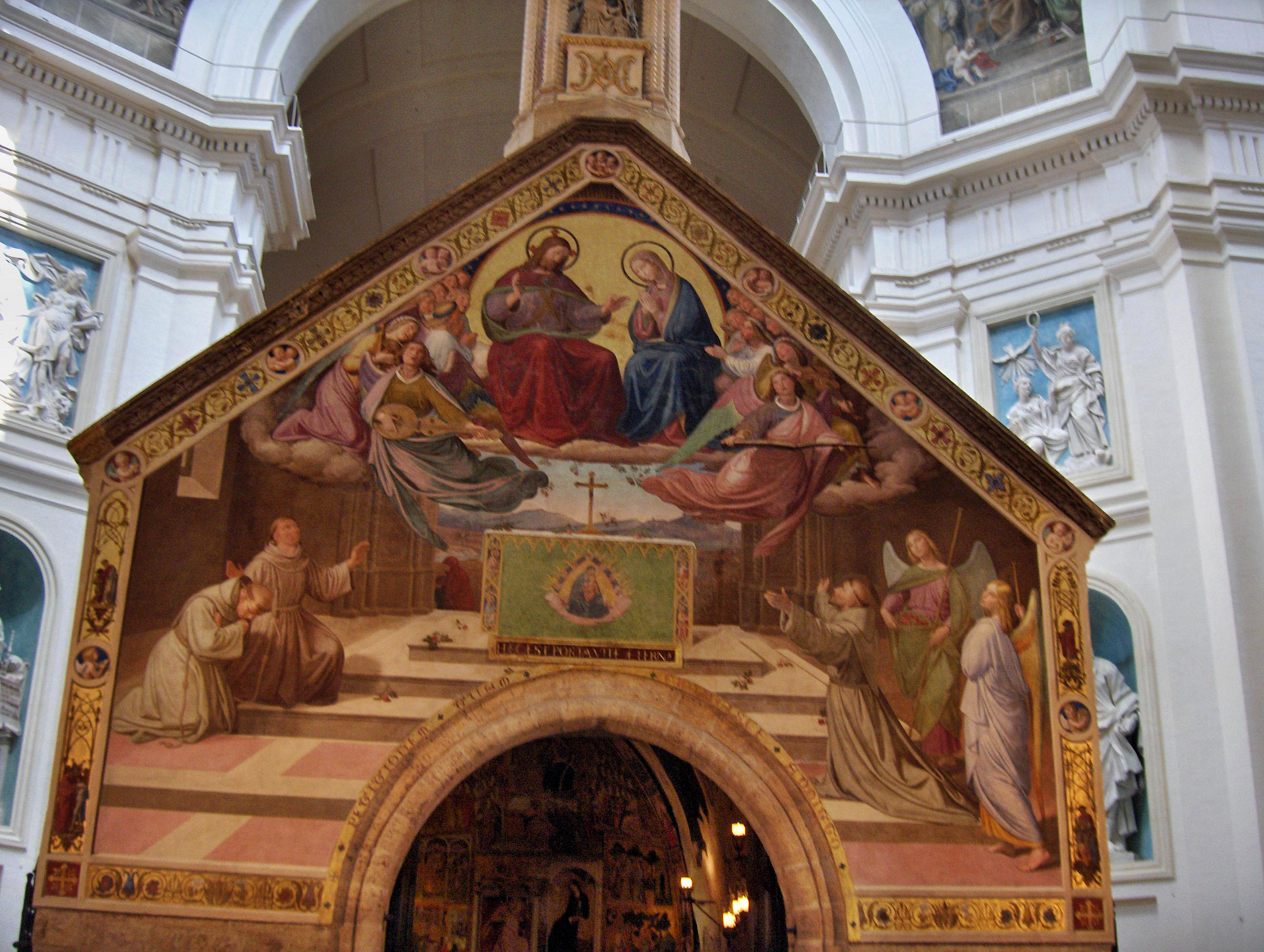 Fresco "St. Francis receiving the Pardon of Assisi" by Friedrich Overbeck (1829), over the entrance of the Porziuncola; Basilica of Santa Maria degli Angeli, Assisi, Italy